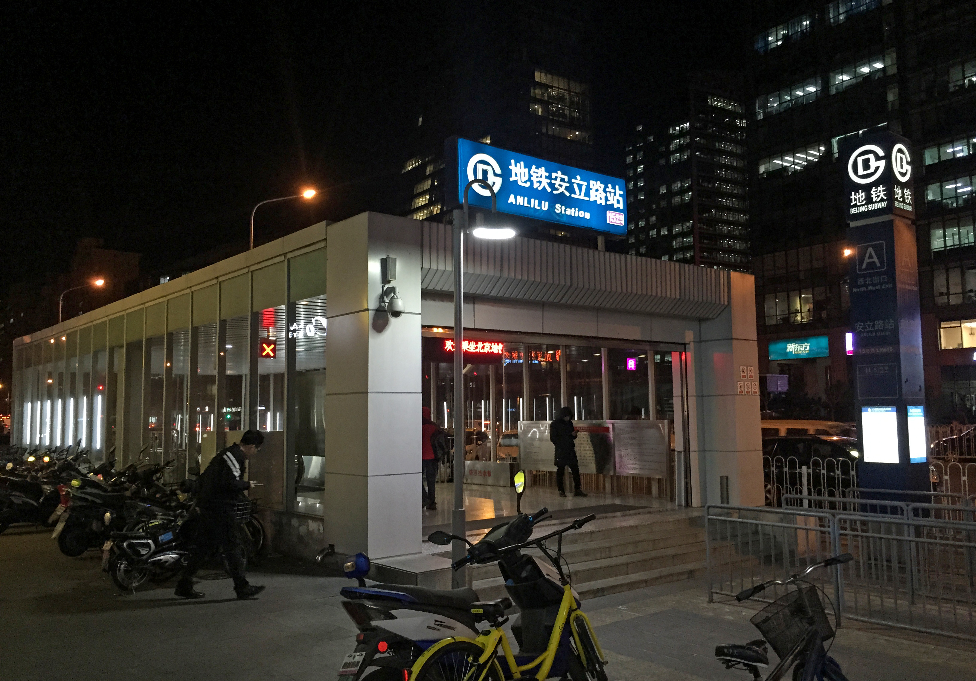 Adjacent bus stop: Baofang.